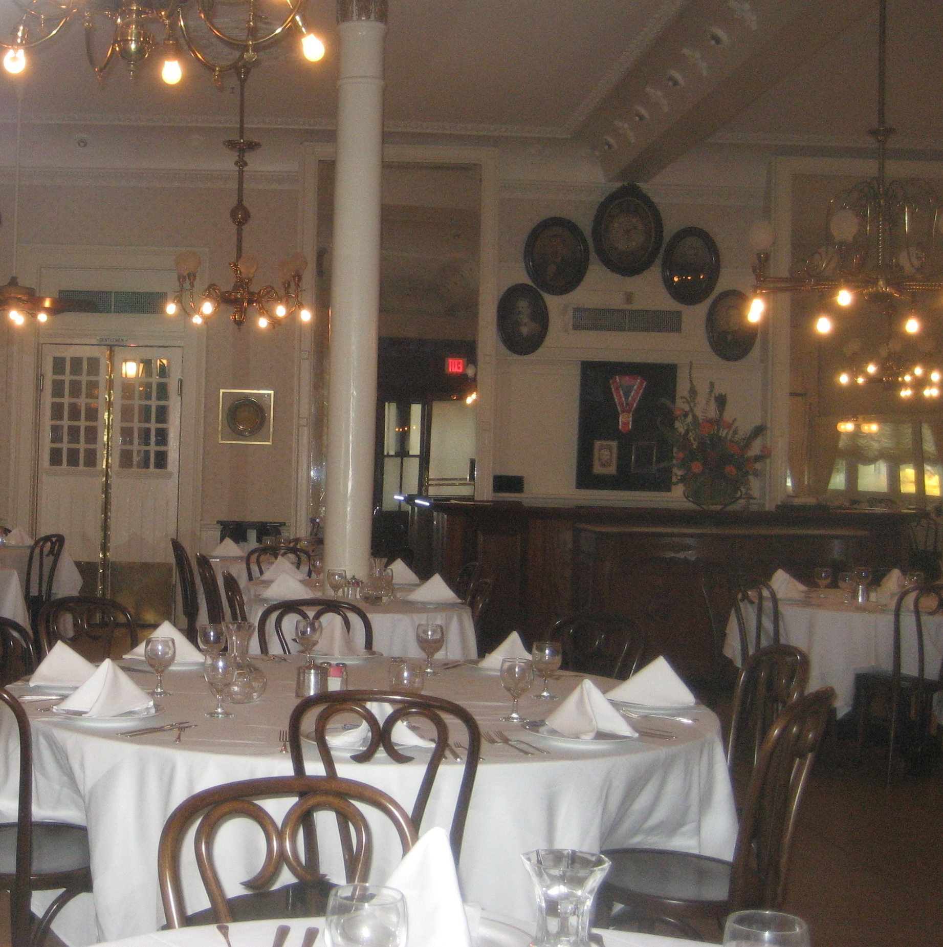 New Orleans: View of dining room of "Antoine's" restaurant